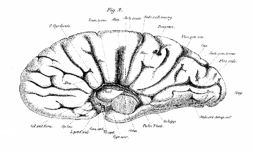 illustration from W. Onufrowicz dissertation; case of partial corpus callosum agenesis